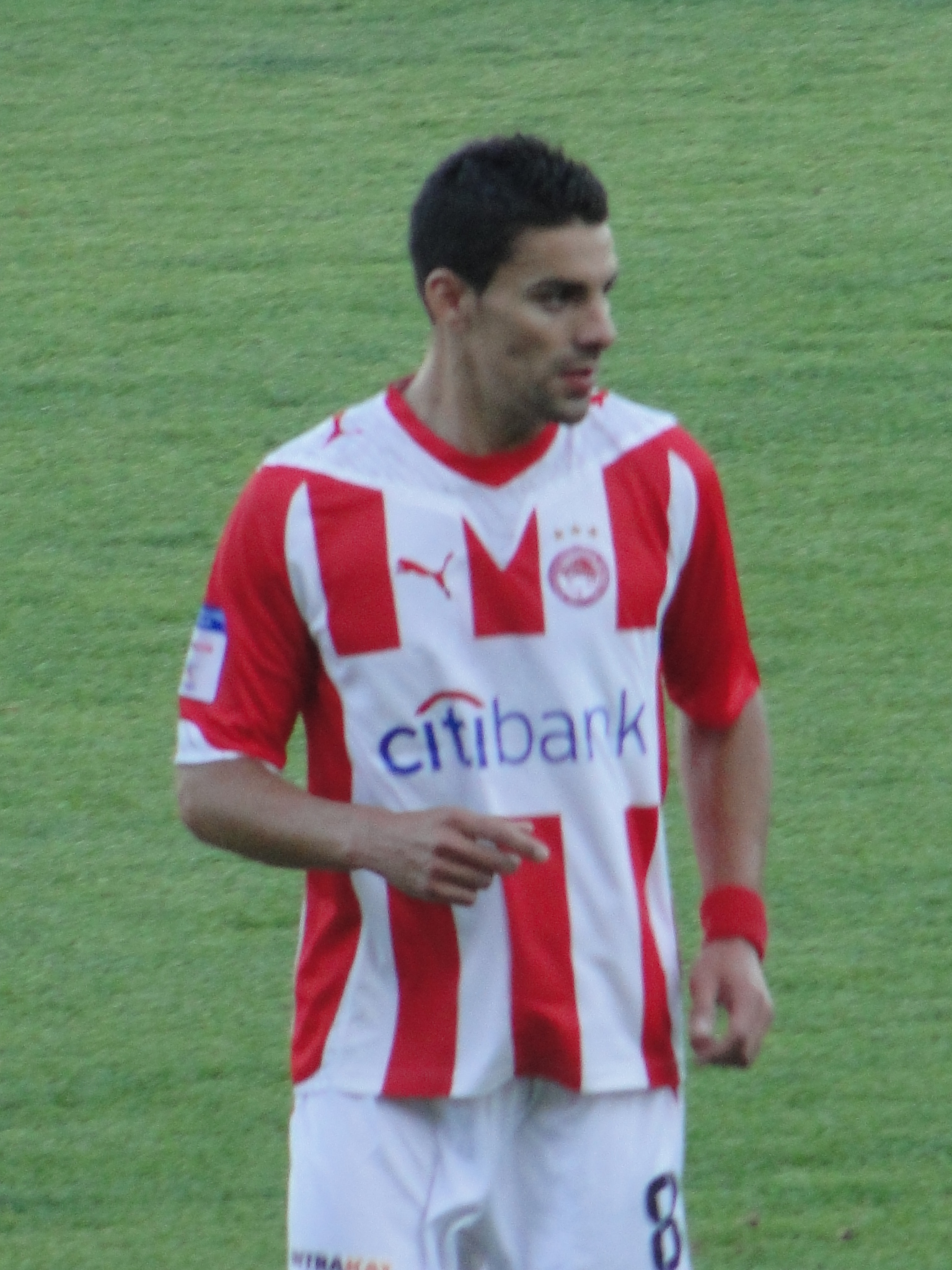 Óscar González playing for Olympiacos, 2010